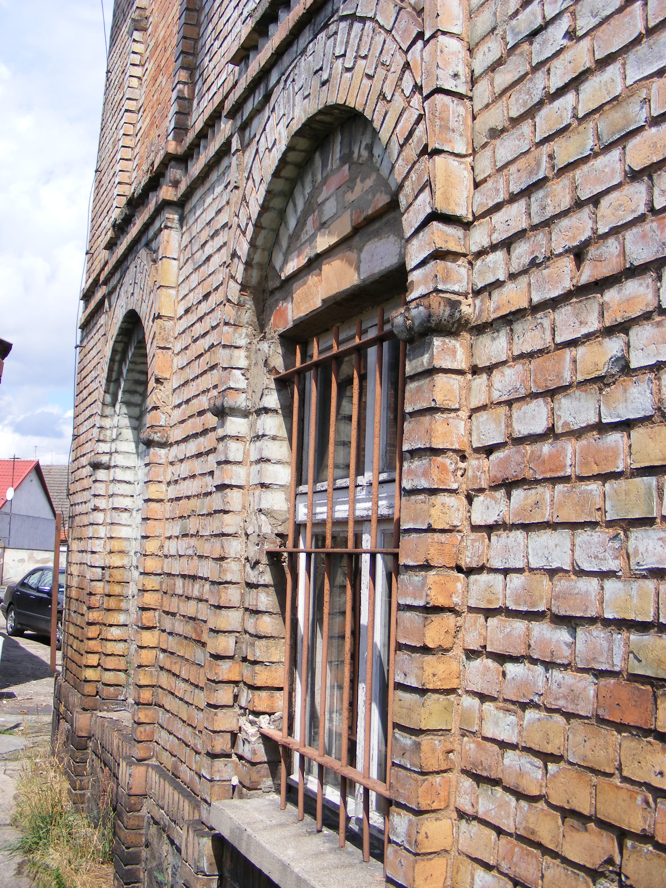 Synagogue in Trzciel